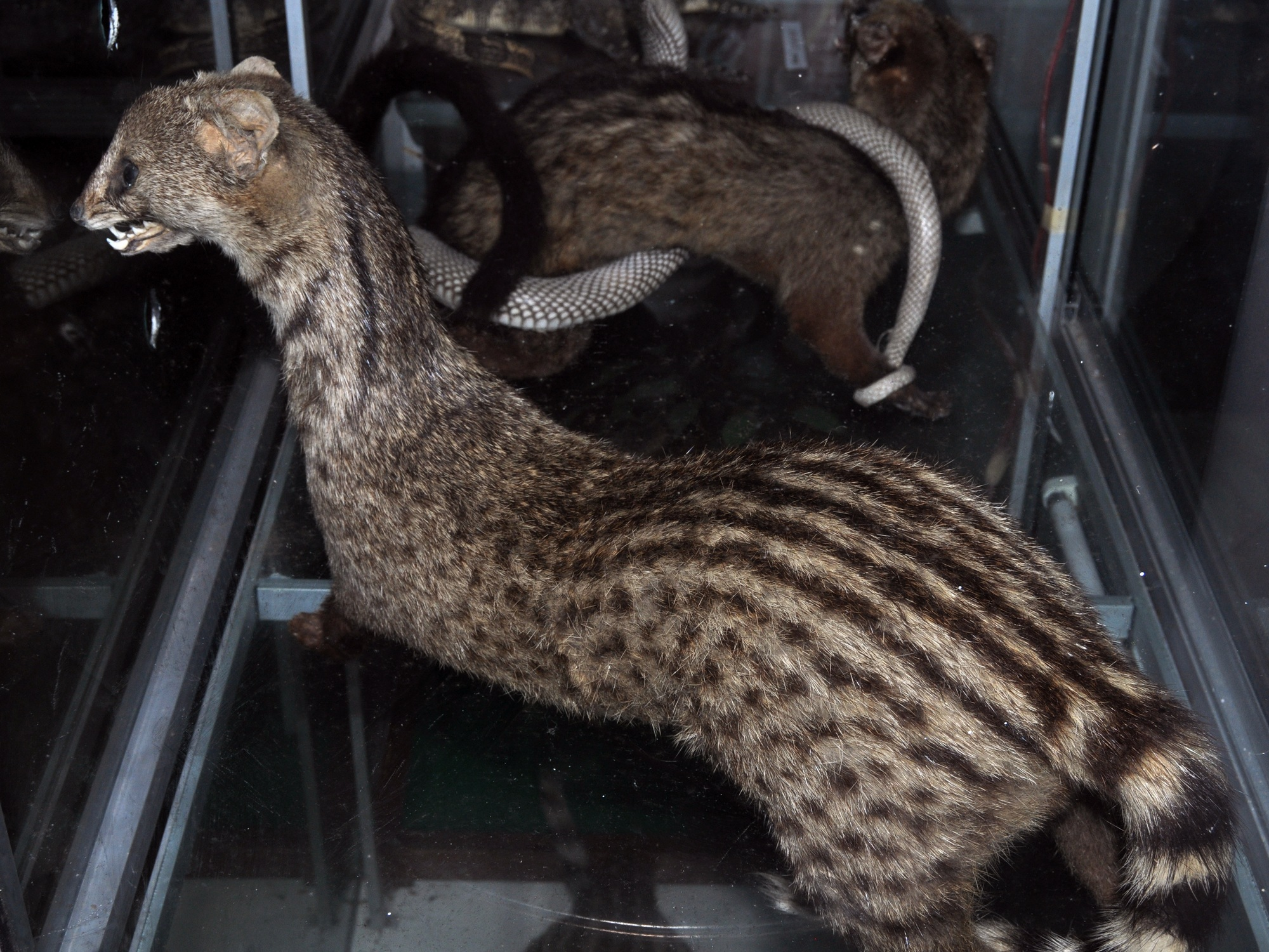 Taxidermy of Viverricula malaccensis from Java. Collection of Gunung Gede-Pangrango Nat. Park, Cibodas, West Java.